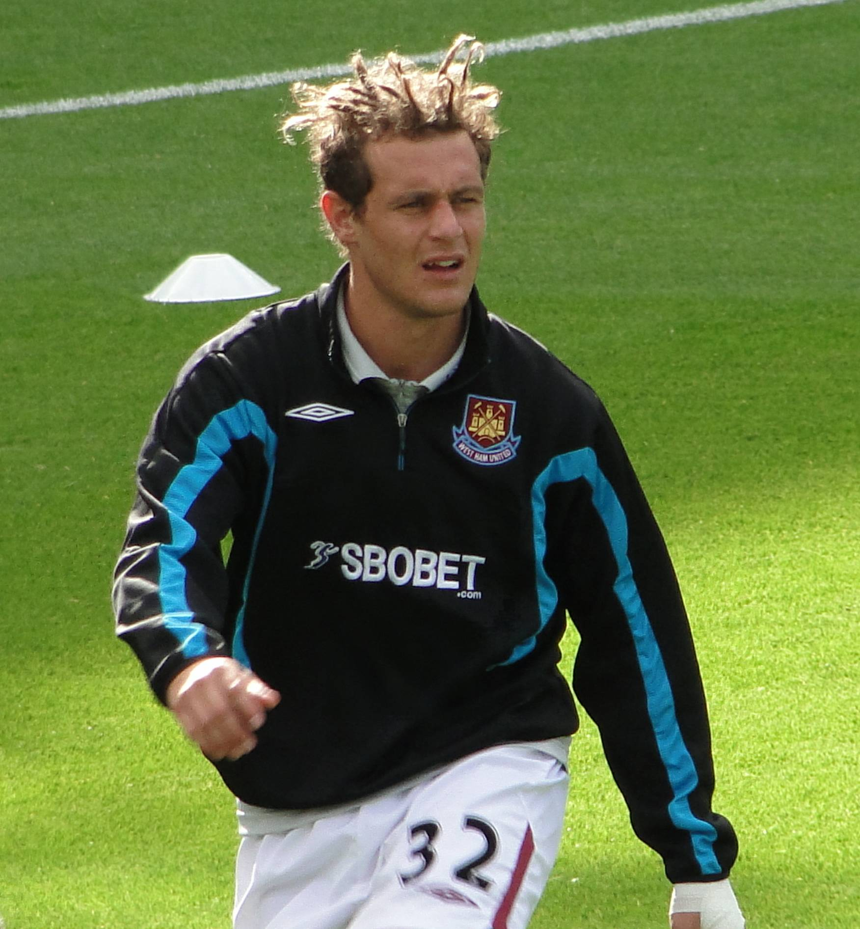 West Ham player Alessandro Diamanti warming-up before West Ham's game v Fulham